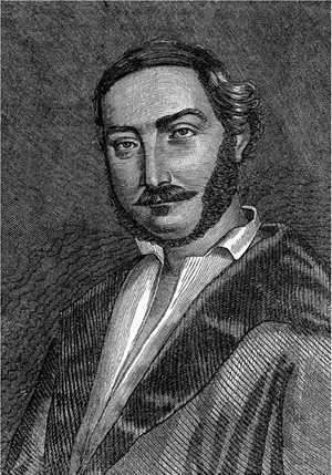 Panagiotis Soutsos. Woodcut published in an issue of Mentor (Μέντωρ), a Greek magazine, in 1873.